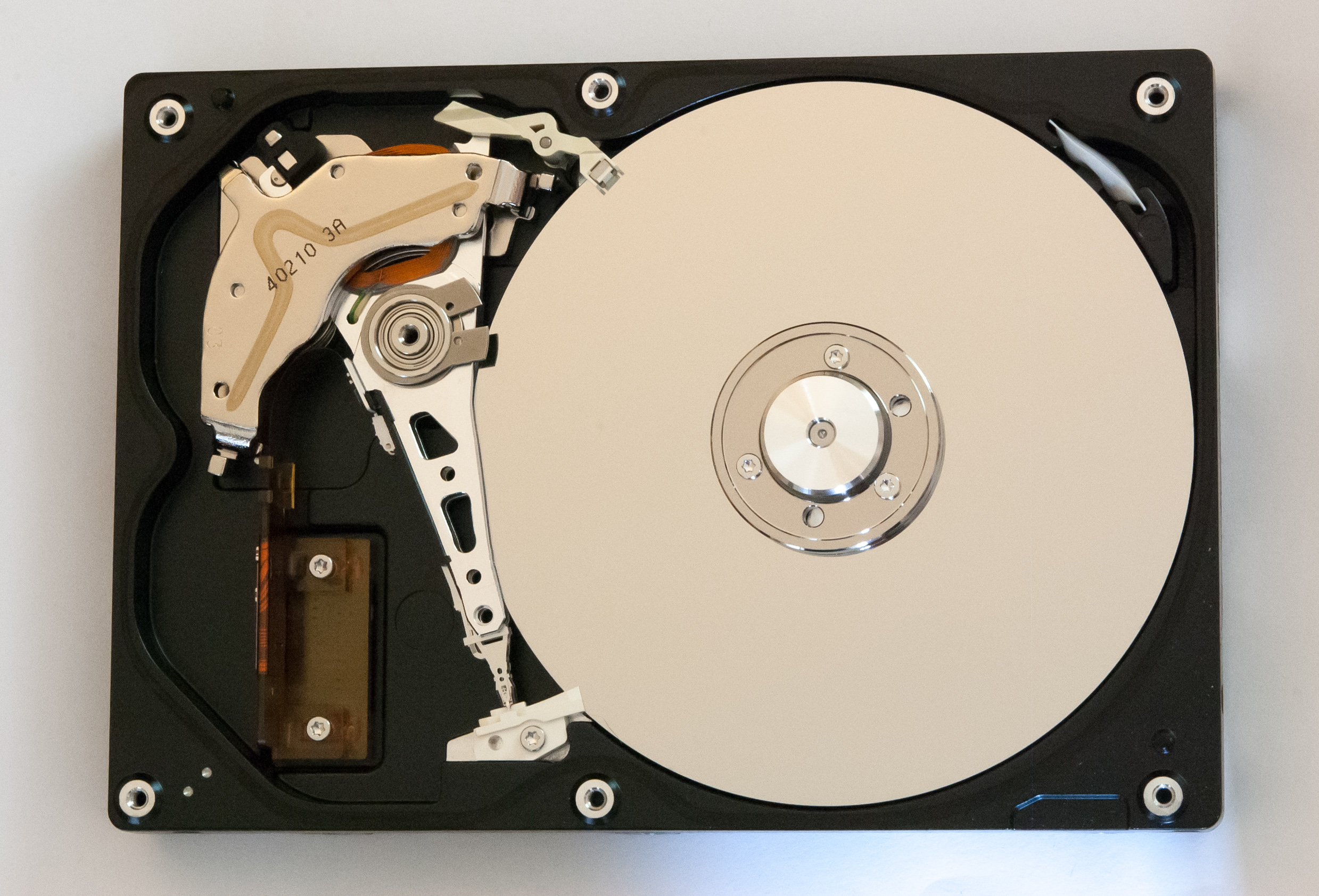 An ExcelStor 80GB hard disk with cover removed. Manufactured 2004-03-23.